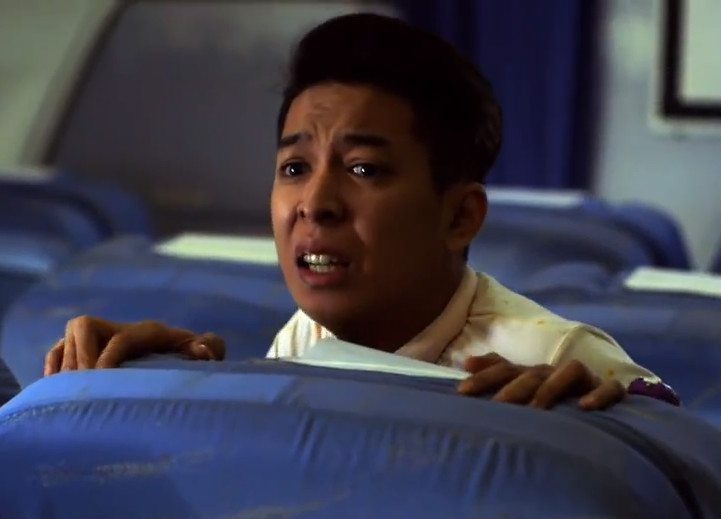 Shake, Rattle and Roll XV Official Trailer - IC Mendoza